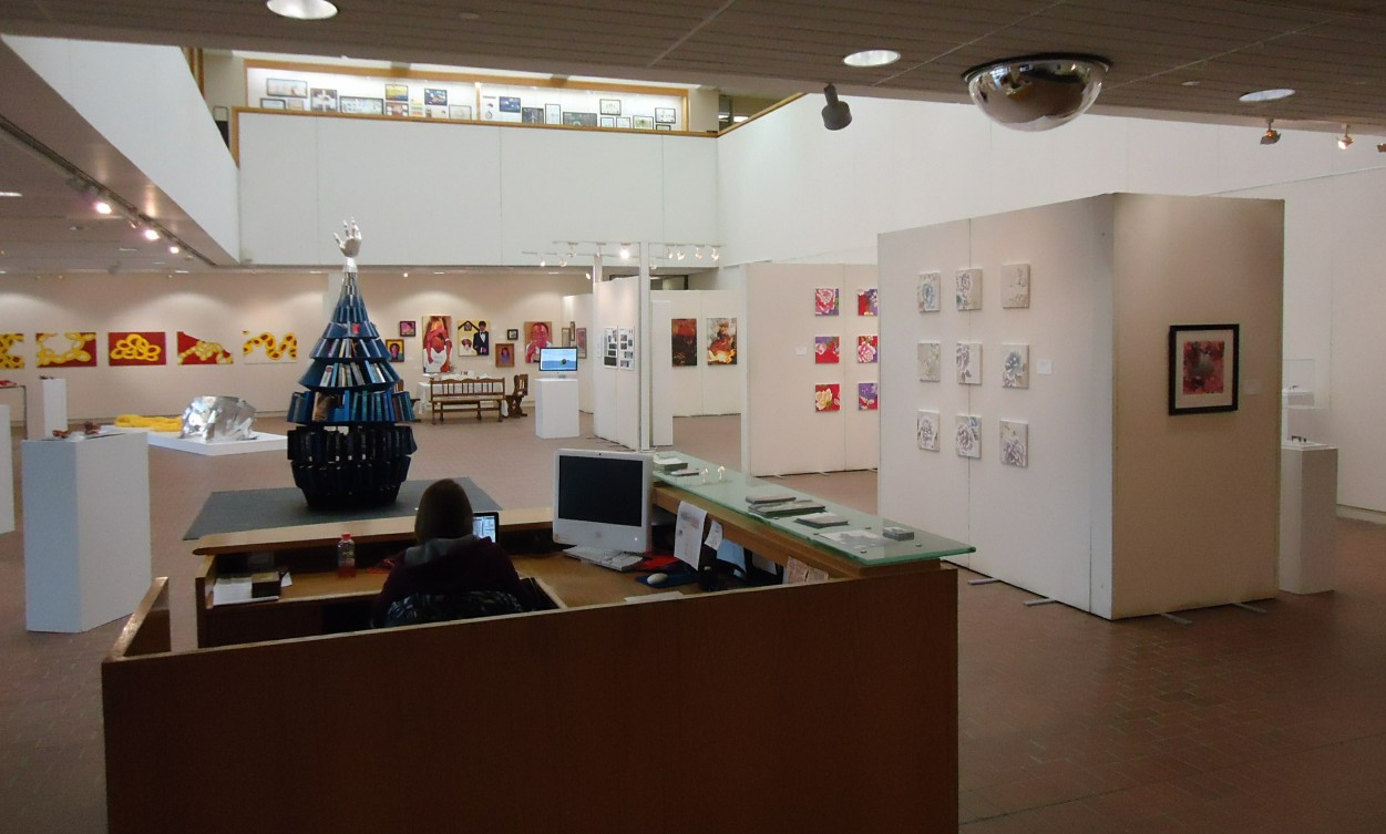 Bevier Art Gallery (07A-2600) in the Booth Building (07A) at the Rochester Institute of Technology